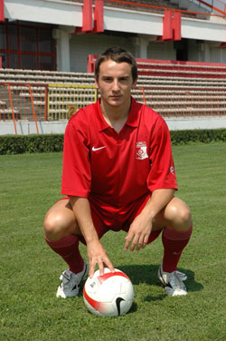 Petronijevic Dusan Football player